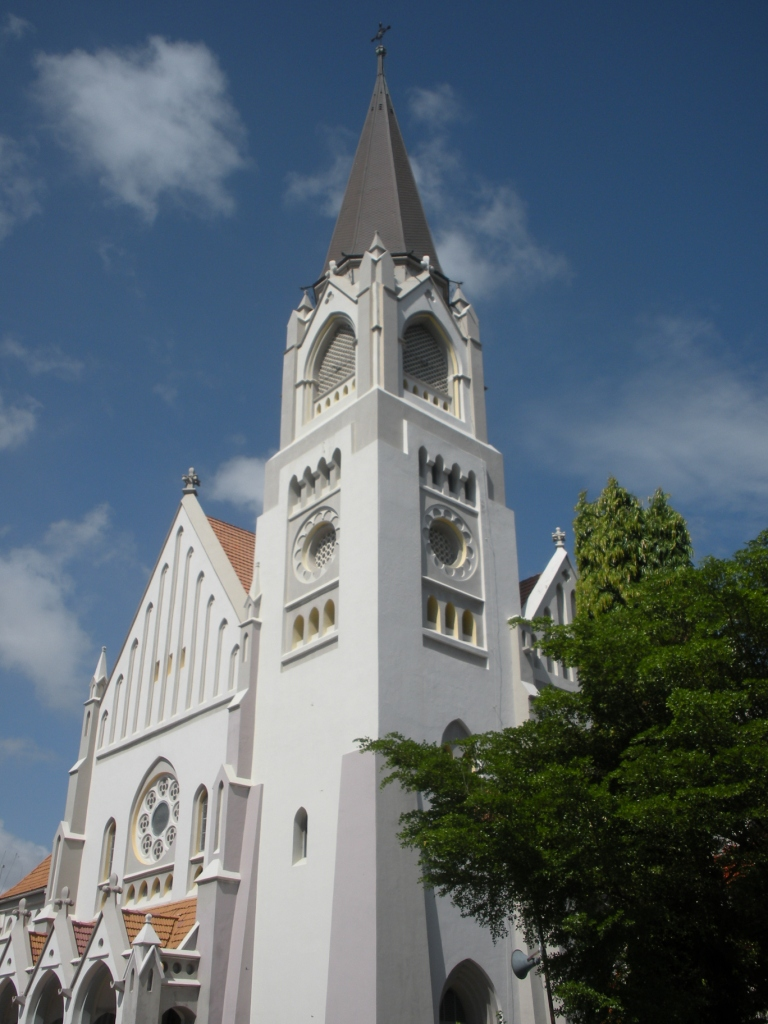 Saint Joseph's Metropolitan Cathedral in Dar es Salaam. This photo has been taken by Mr. Chen Hualin